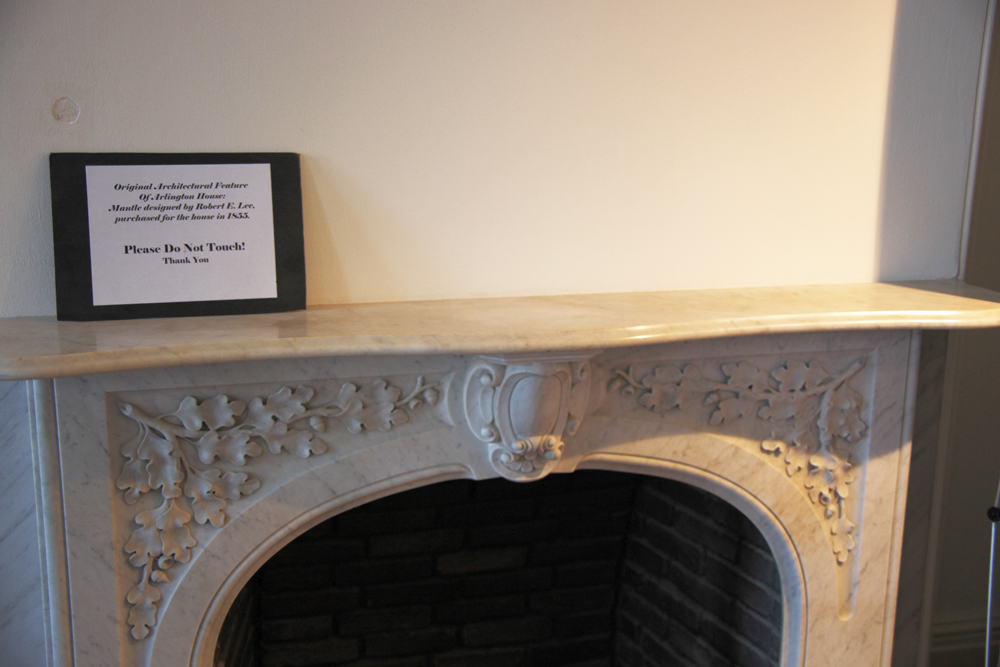 Fireplace in the west wall of the State Dining Room at Arlington House, the Robert E. Lee Memorial, at Arlington National Cemetery. The State Dining Room is in the eastern (front) half of the South Wing of the house, south of the Drawing Room and north of the Office. Beginning in 2008, Arlington House began a major conservation and restoration effort. A modern HVAC system was installed to help prevent moisture and mold damage to the house and its contents, and conservation and restoration of its structural elements also occurred. The effort was due to end in 2012, but the August 2011 earthquake resulted in moderate structural damage to the house. The back wall separated from the mansion, requiring the rear passageway and conservatory to be declared off-limits. The second floor is also closed to visitors. The National Park Service says it has no idea when the house will reopen, as most NPS money is going for repairs to the Washington Monument. Arlington House was built by George Washington Parke Custis, adopted son of George Washington, in 1803. George Hadfield, also partially designed the United States Capitol, designed the mansion. The north and south wings were completed between 1802 and 1804. but the large center section and portico were not finished until 1817. George Washington Parke Custis died in 1857, leaving the Arlington estate and house to his eldest daughter, Mary Custis Lee -- wife of General Robert E. Lee.